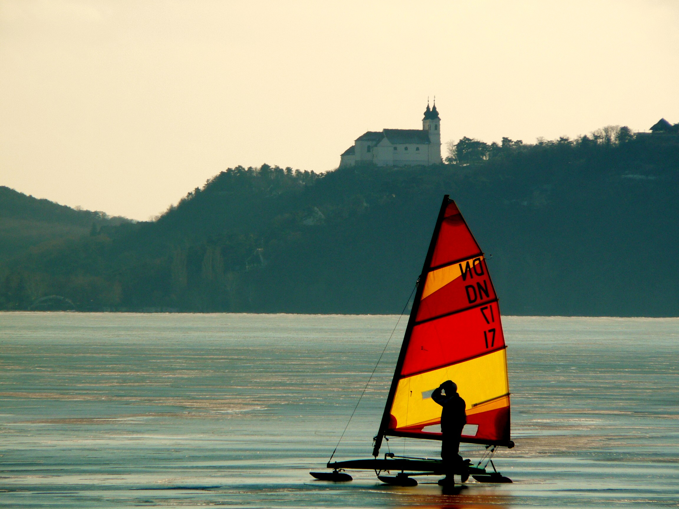 An iceboat on Lake Balaton